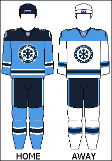 Sibir Novosibirsk uniforms for 2015/2016 KHL season.